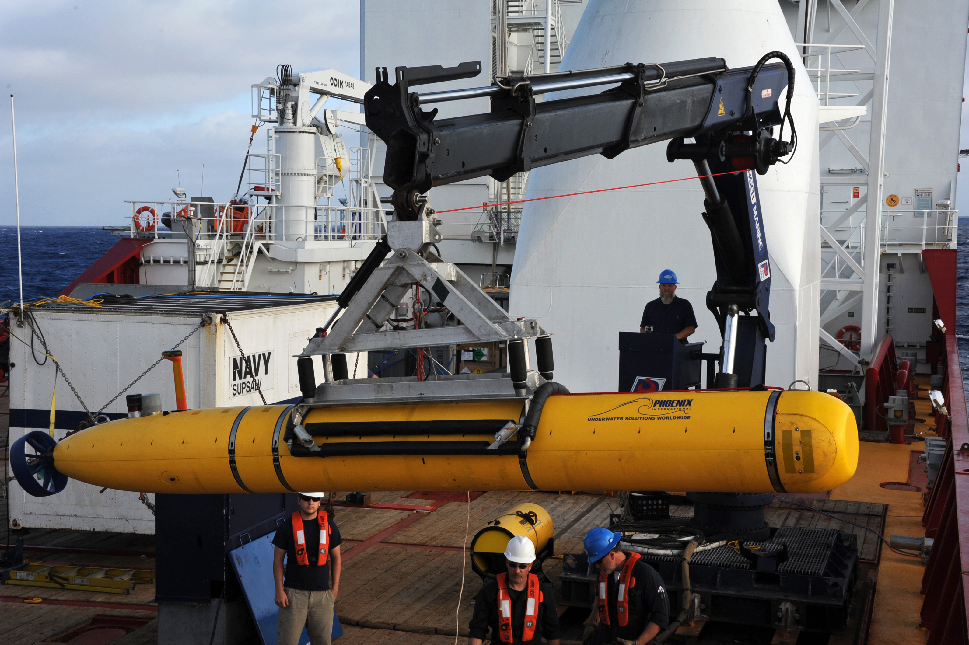 Operators aboard ADF Ocean Shield move U.S. Navy’s Bluefin-21 into position for deployment, April 14. Using side-scan sonar, the Bluefin will descend to a depth of between 4,000 and 4,500 meters, approximately 35 meters above the ocean floor. It will spend up to 16 hours at this depth collecting data, before potentially moving to other likely search areas. Joint Task Force 658 is currently supporting Operation Southern Indian Ocean, searching for the missing Malaysia Airlines Flight 370